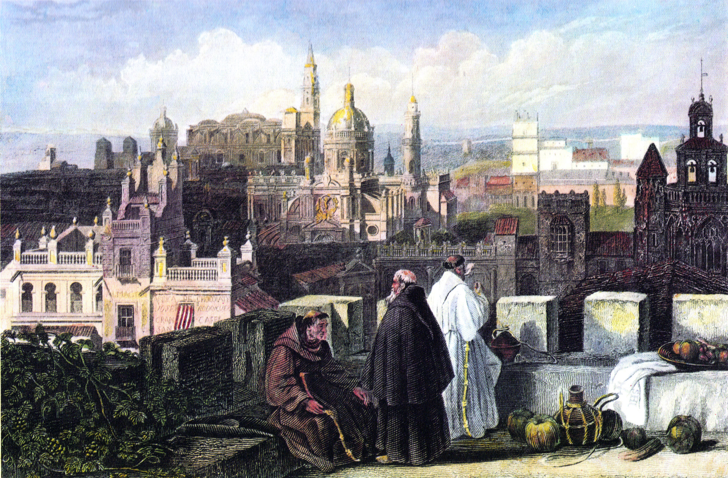 Jerez, Spain, around 1835. Bibliographic Institute Hildburghausen